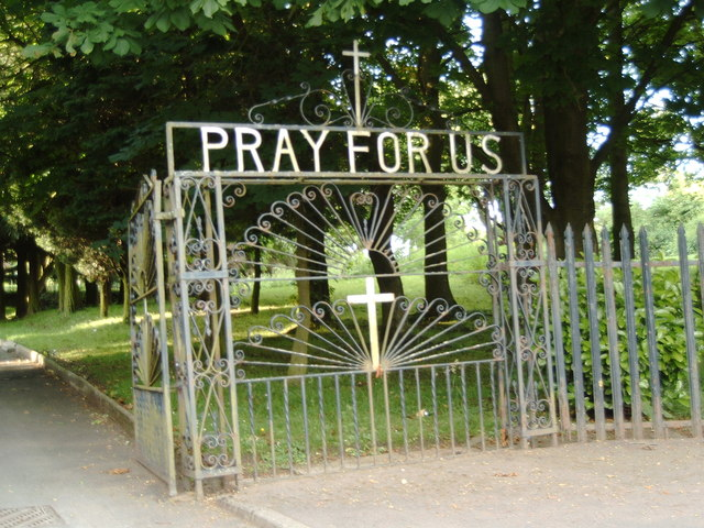 Pray For Us Gate at St. Barbara's in Muirhead